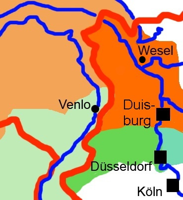 Lower Rhine dialects